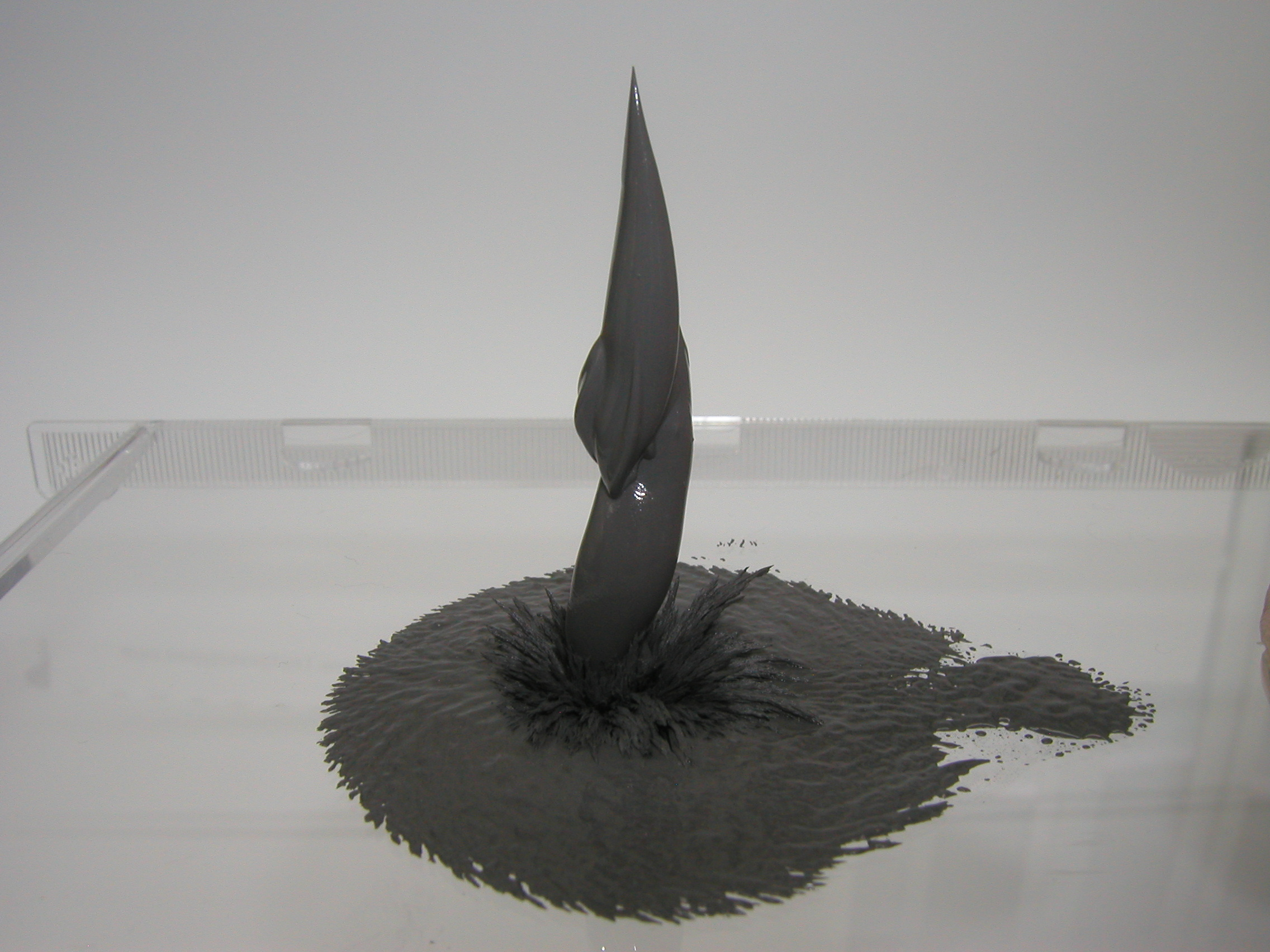 Tower out of a magnetorheological fluid (MRF)